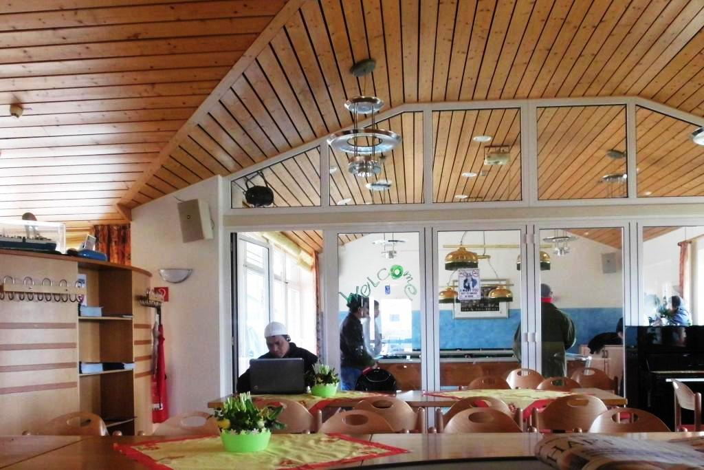 Blick in den Raum mit den Billard und Tischtennis